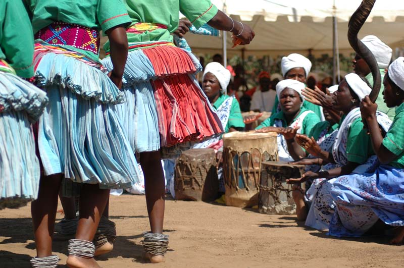 Traditional Xitsonga Dancing